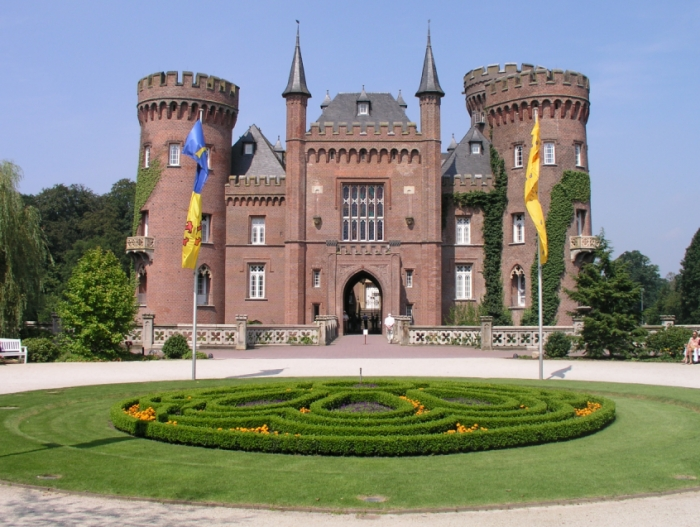 Castle Moyland at Bedburg-Hau